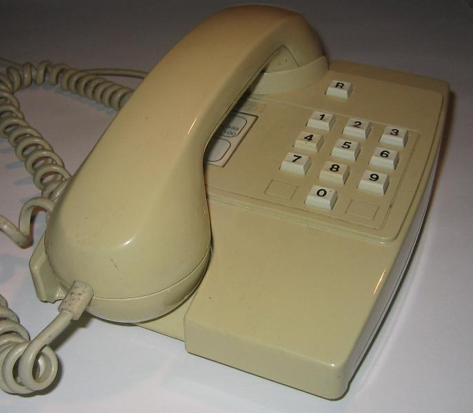 GPO Statesman 1984 Ivory. Deben Dave 17:42, 13 October 2007 (UTC)